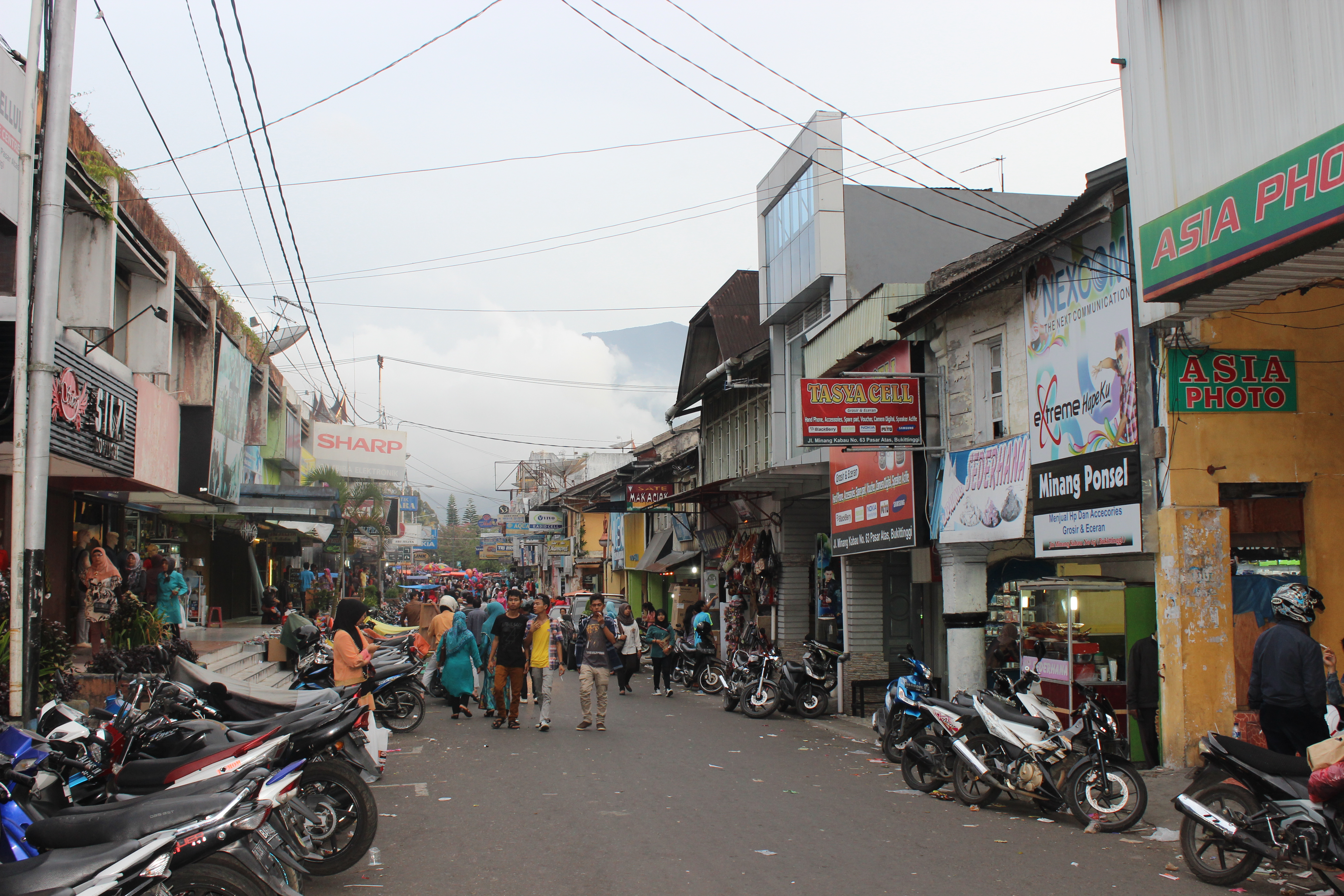 Pasa Ateh ("Upper Market") in Bukittinggi.